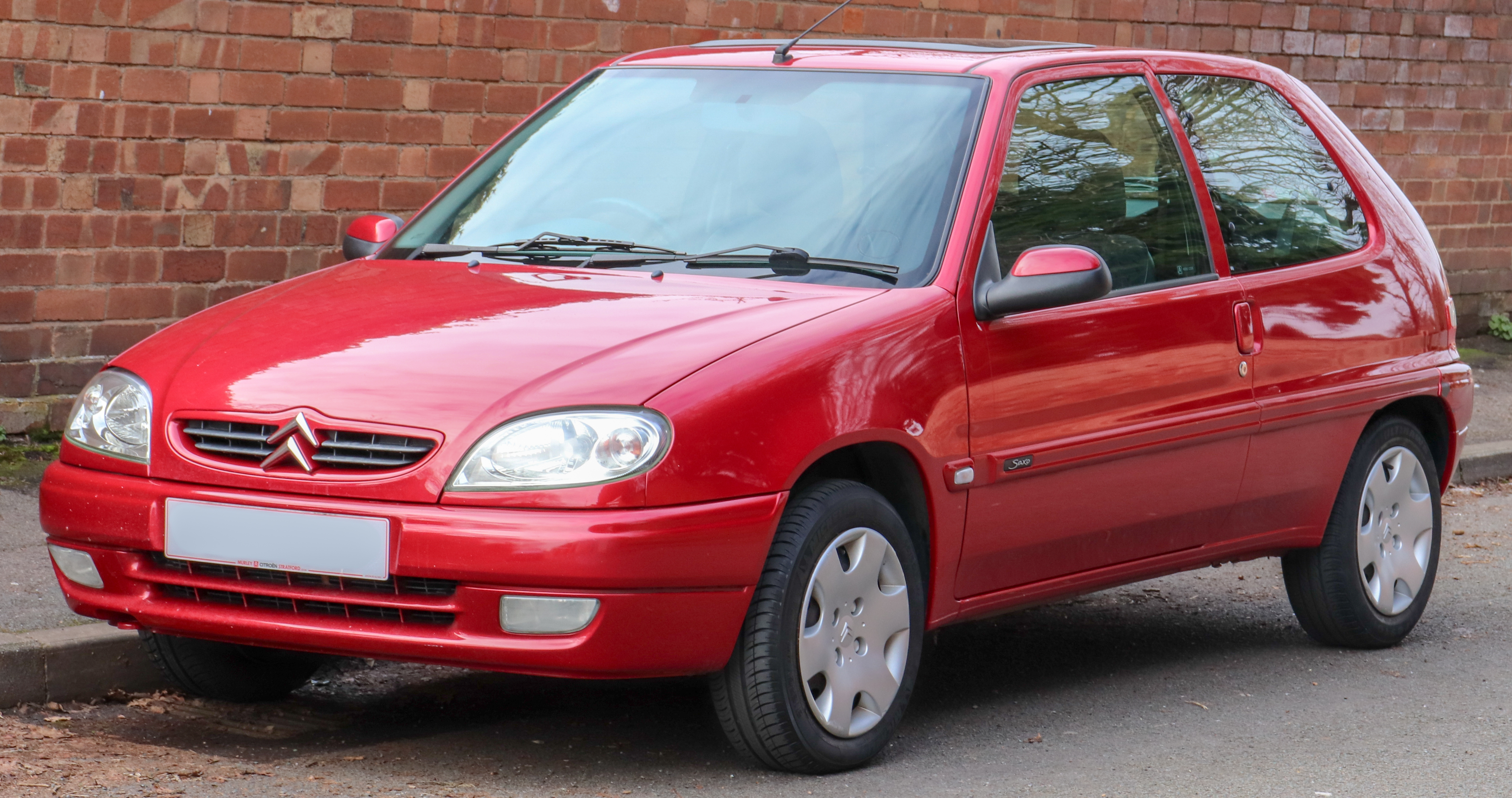 2003 Citroen Saxo Desire 1.1 facelift Front Taken in Leamington Spa